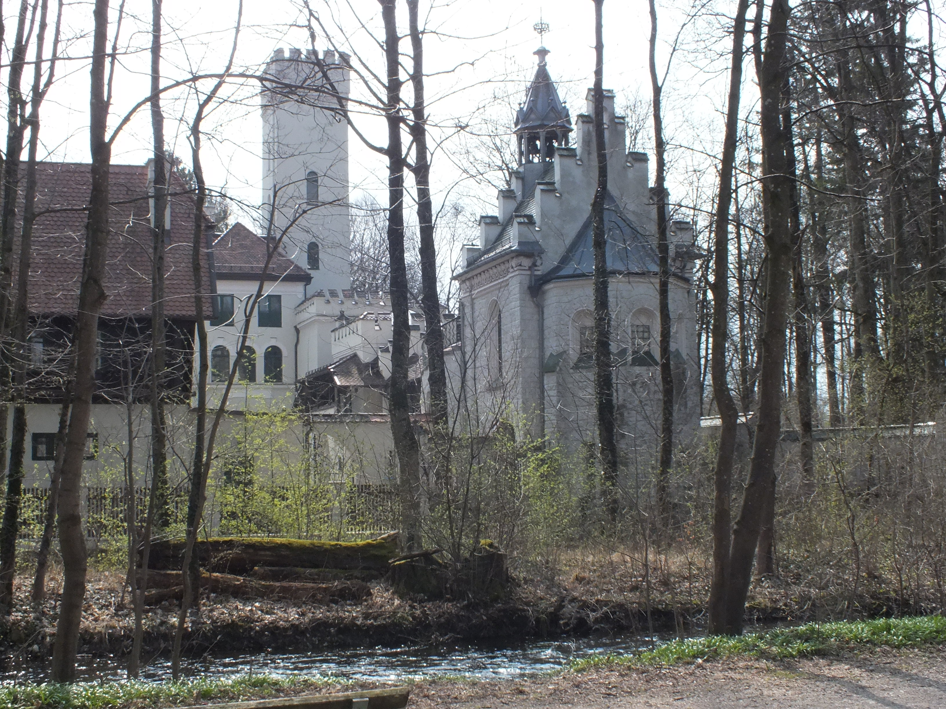 see file name